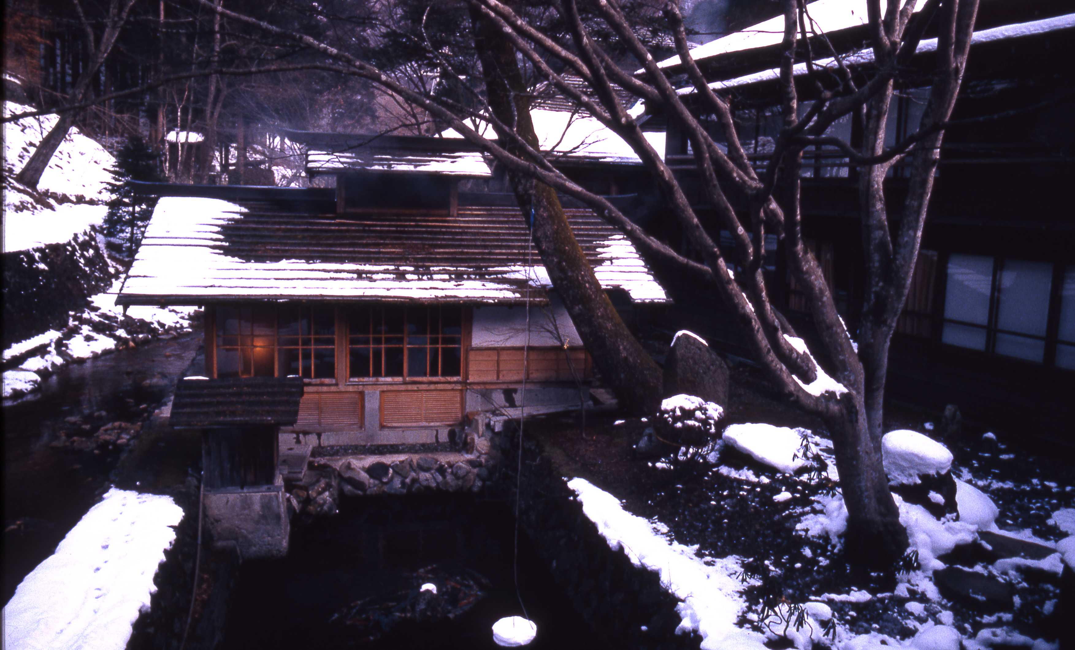 Hōshi Onsen in Minakami, Gunma, Japan.